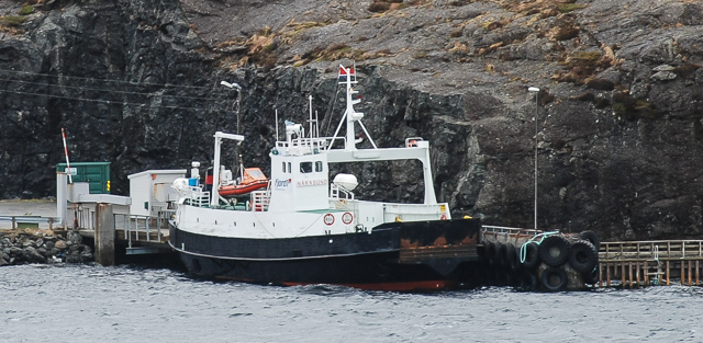 MF Nårasund